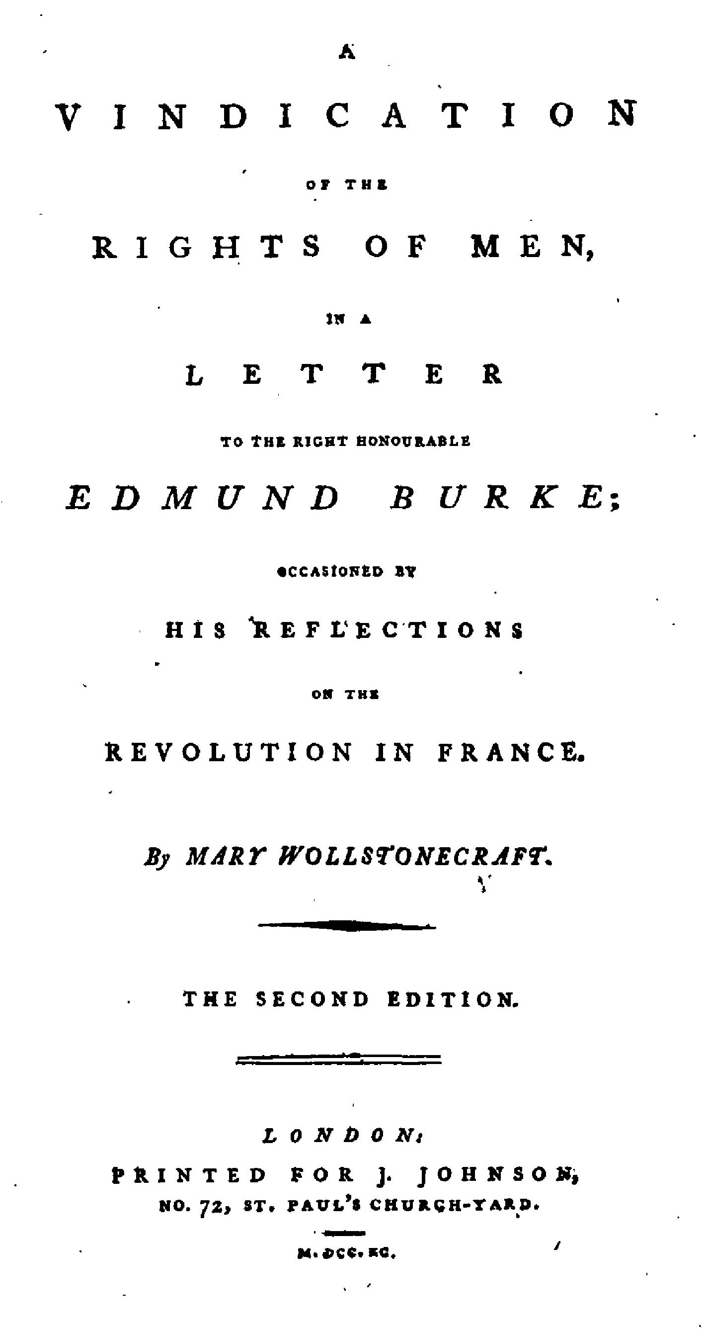 Title page from Mary Wollstonecraft, Vindication of the Rights of Men, 2nd edition, London: J. Johnson, 1790.